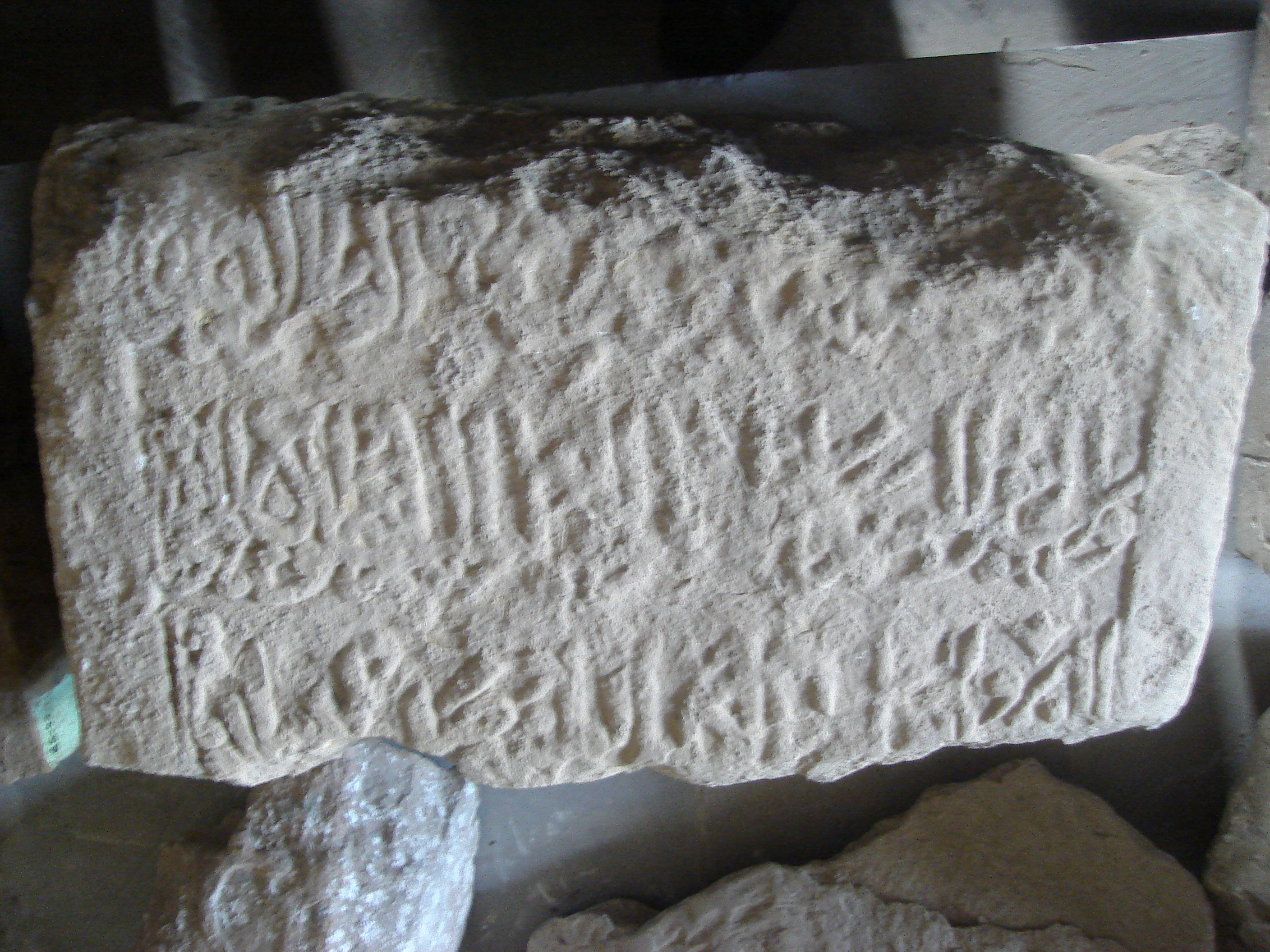 A gravestone found in city of Bolghar the Capital of Volga Bulgaria. Arabic transcript with Bolghar language which amongst the Turkic Languages.